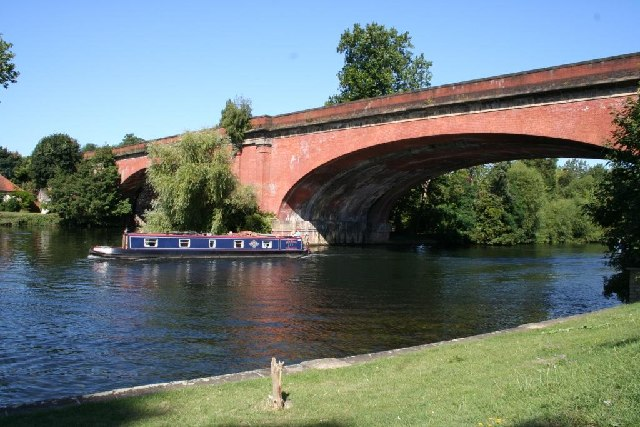 Brunel's Railway Bridge at Maidenhead. The bridge was designed Isambard Kingdom Brunel, engineer for the Great Western Railway. The railway from London to the West is carried across the River Thames on two brick arches, and the bridge was the widest and flattest in the world. Each span is 128 feet (39 m), with a rise of only 24 feet (7 m). The Thames Path passes under bridge, also known as the Sounding Arch because of its spectacular echo.